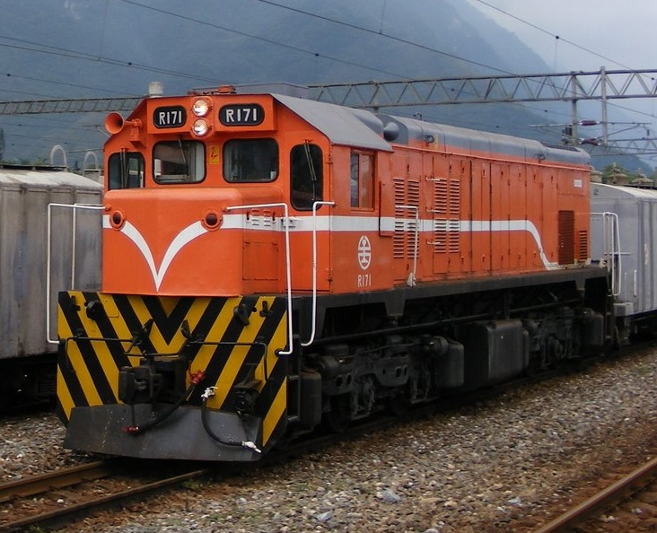 Taiwan Railway Administration R171 Diesel locomotive @ Sincheng (Taroko) Station.